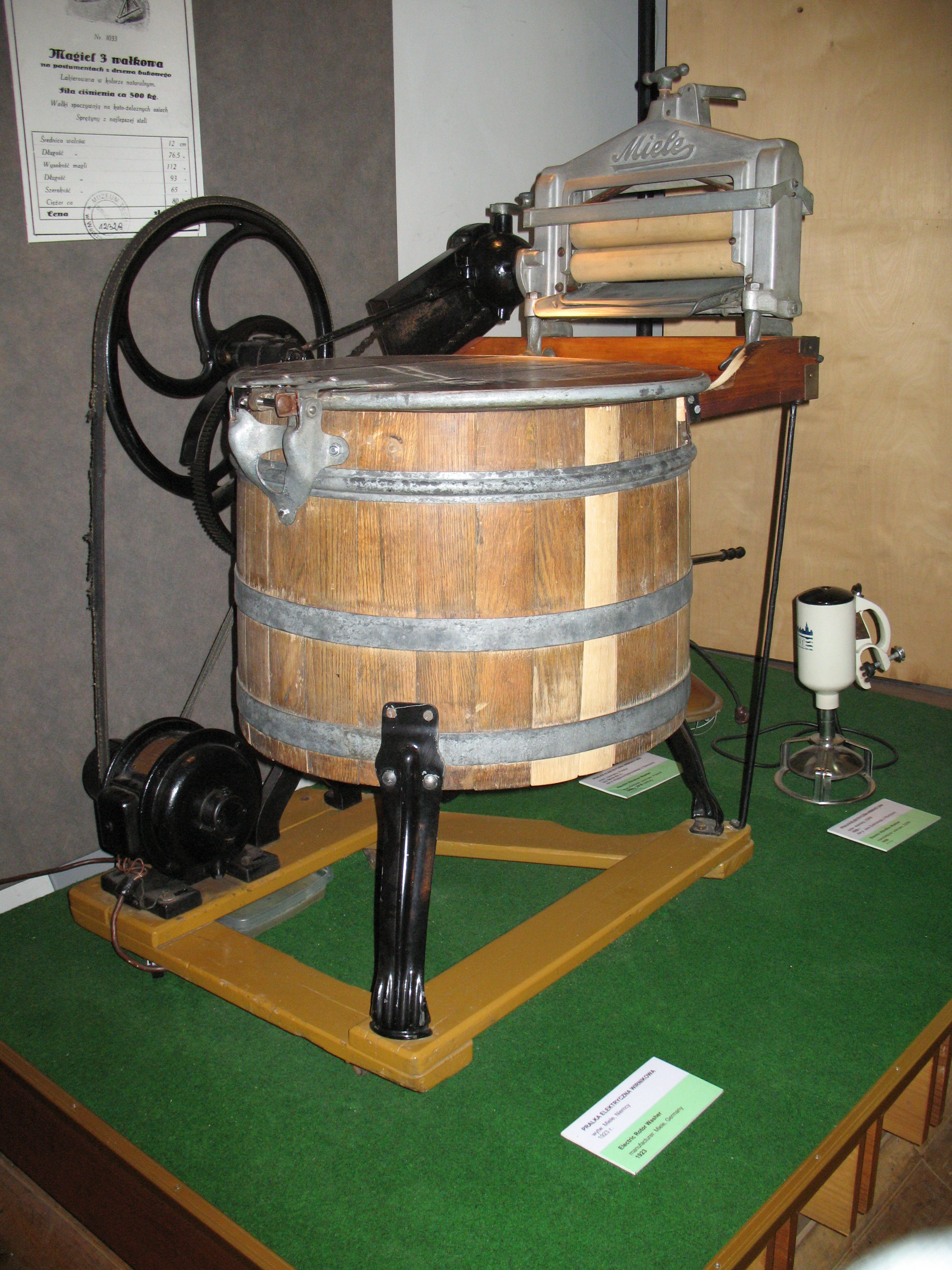 Electric Rotor Washer, manufactured by Miele, Germany 1923 (photo taken in Muzeum Techniki ('Museum of Technology'), Poland)